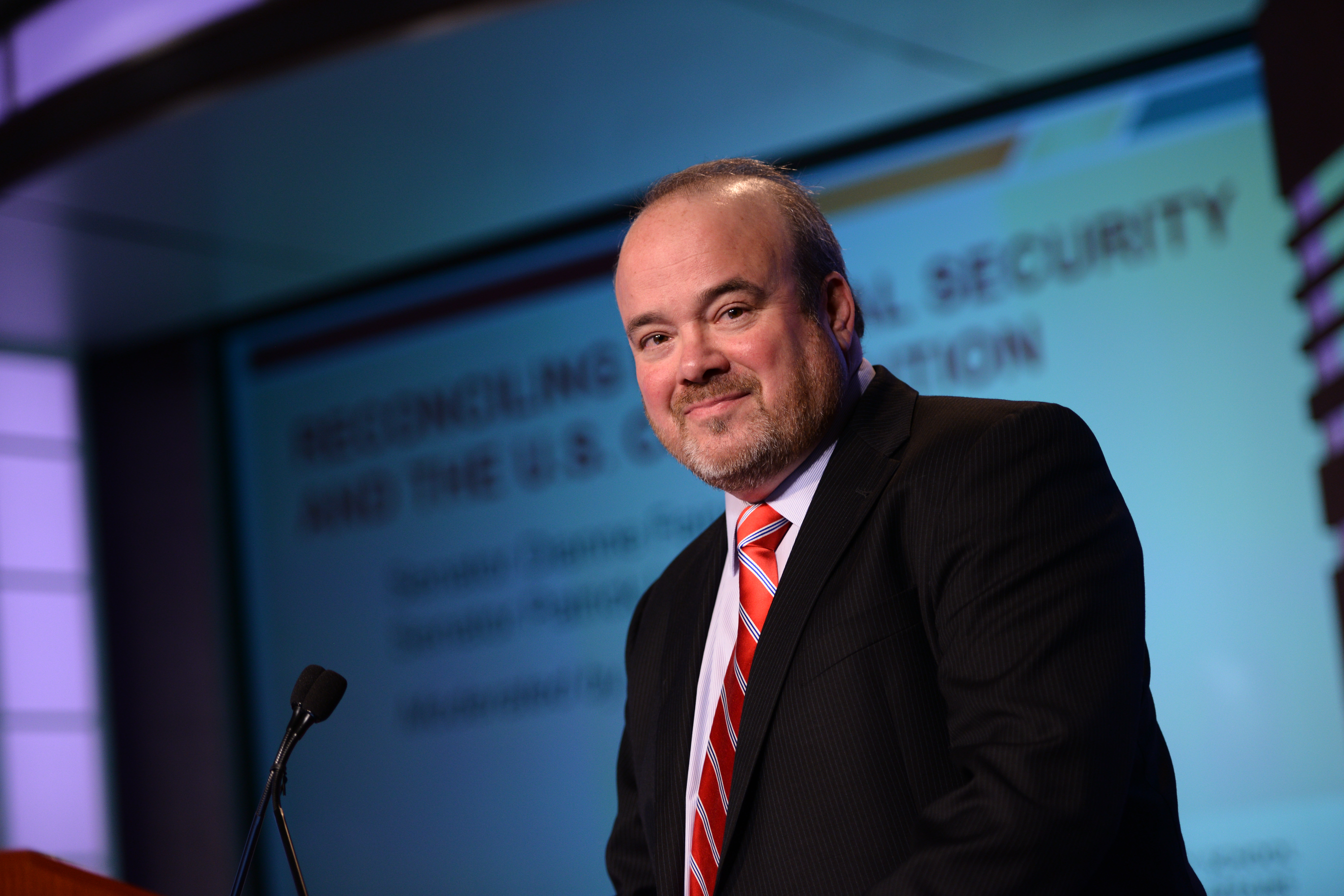 Professor Larry Jacobs